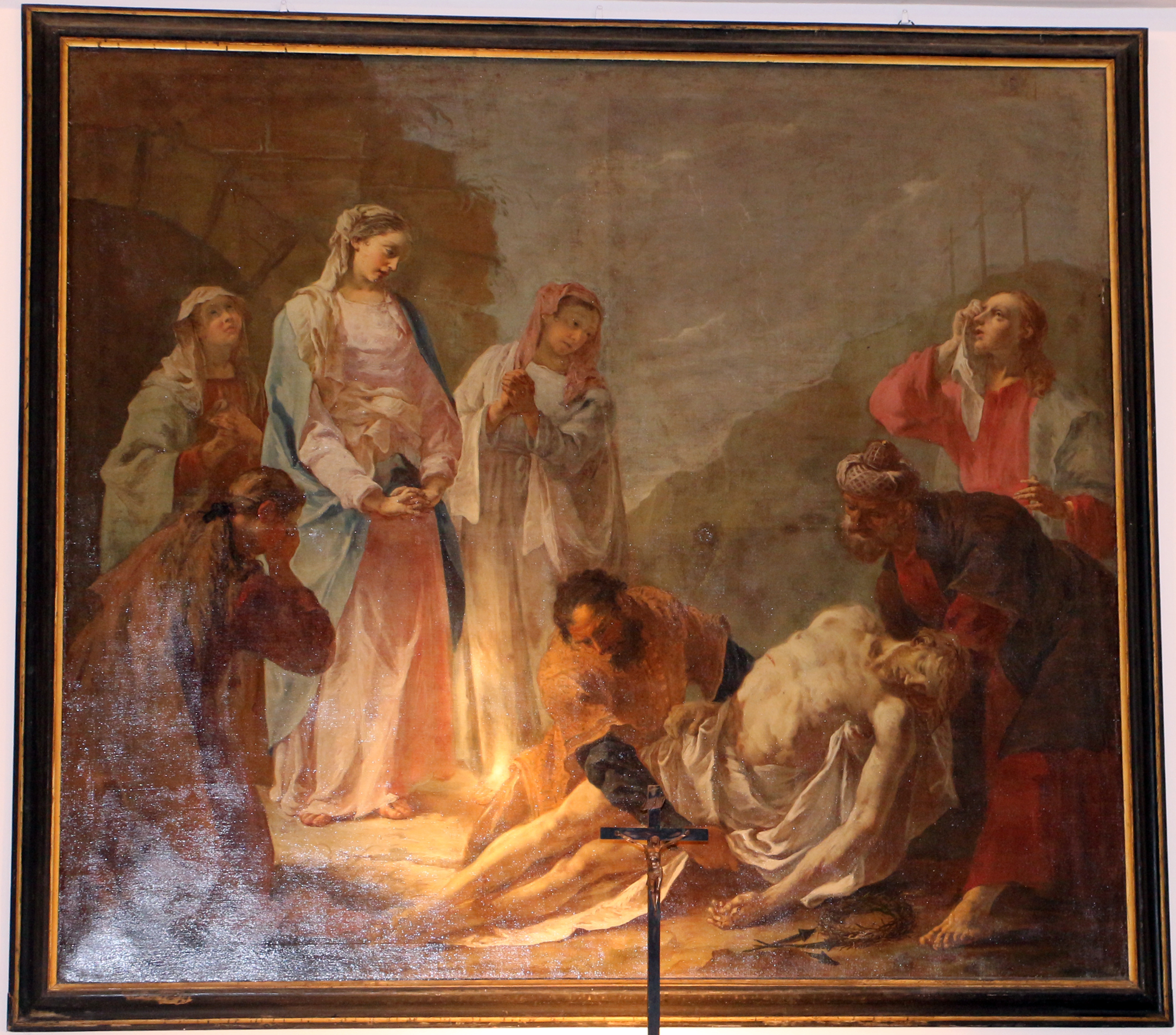 Padergnone (Zanica) - Chapel